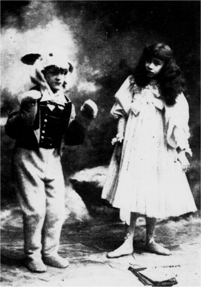 Image scanned from "Flashes From The Footlights", English Illustrated Magazine, March 1899, p.638, showing "Miss Rose Hersee" as Alice, with the White Rabbit.